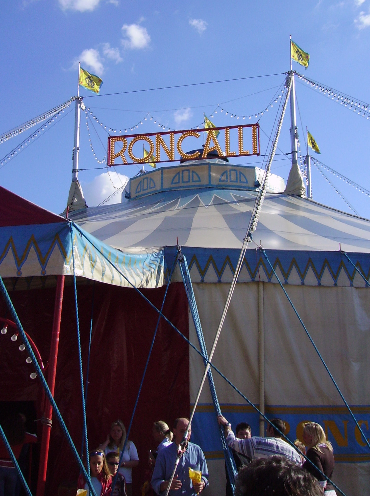 Circus Roncalli (Germany)